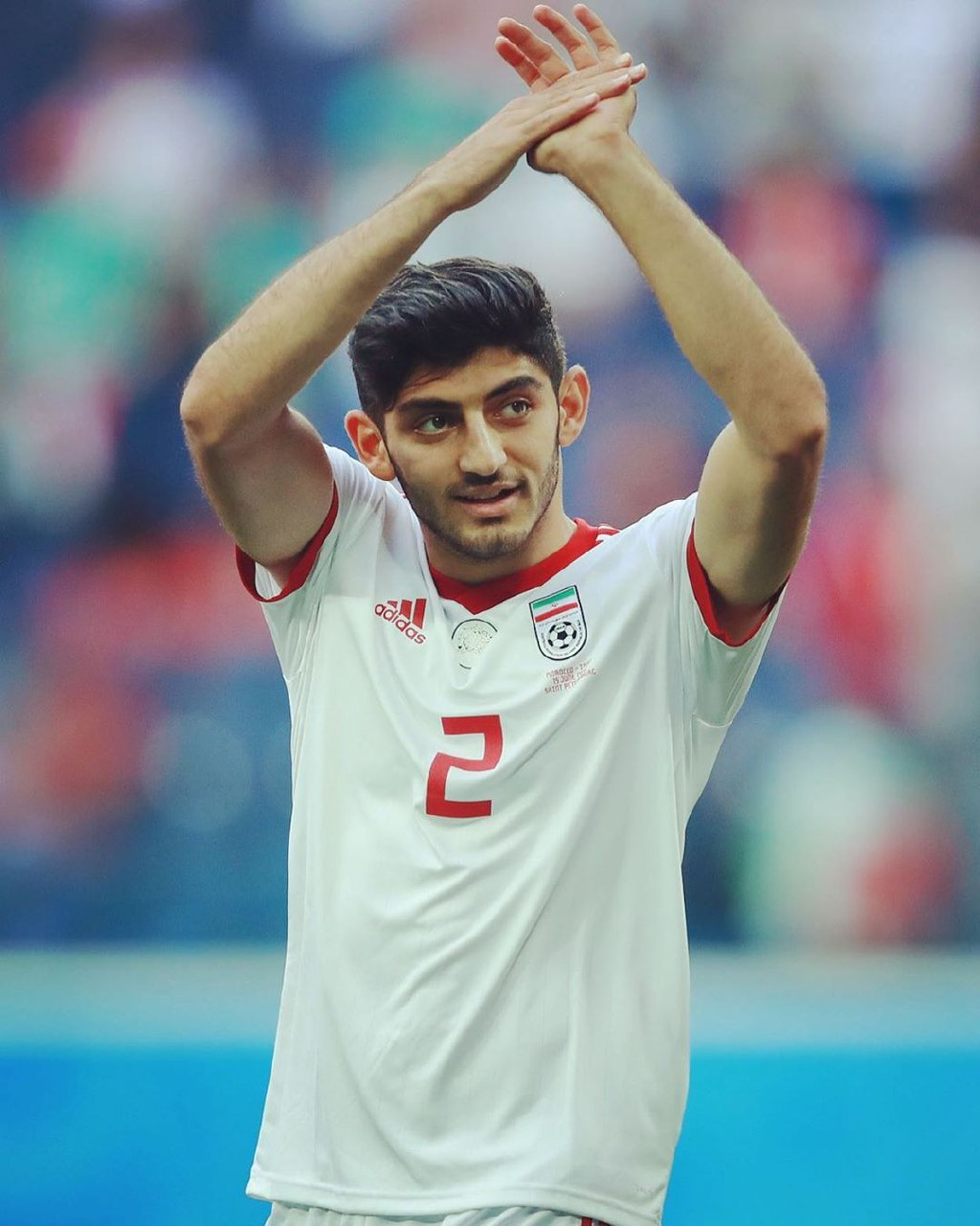 Mehdi Torabi